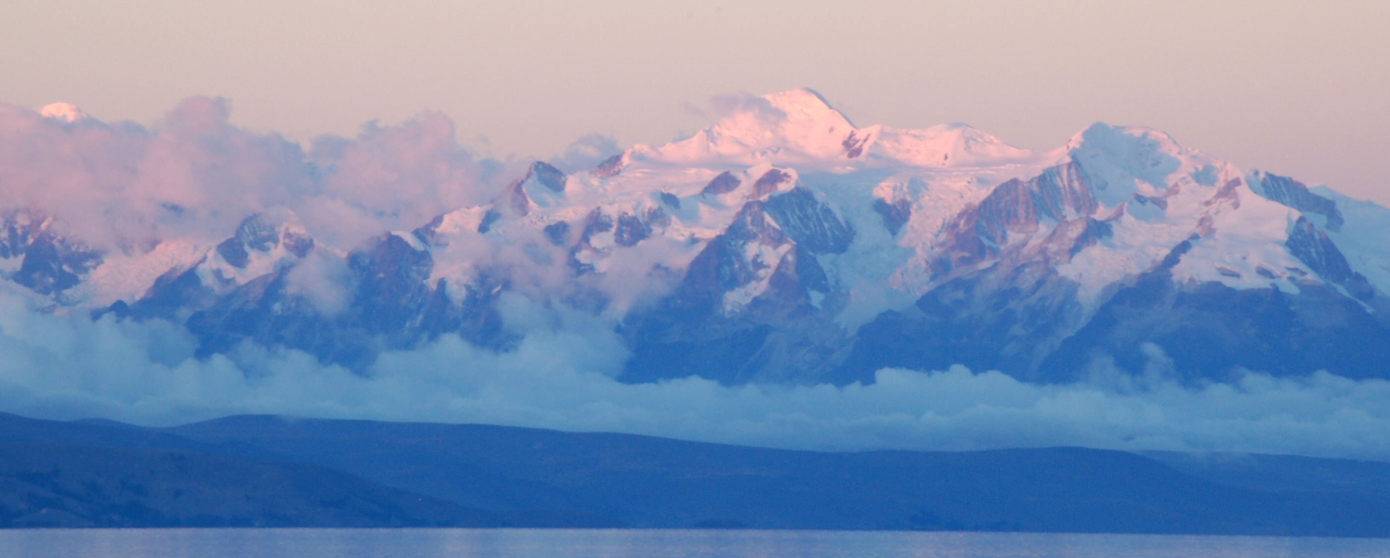 This is Mount Ancohuma, the third highest mountain in Bolivia just east of Lake Titicaca. Save for the crop and a little bit of cloning to get rid of some sensor dirt, this photograph is pretty much presented as taken.